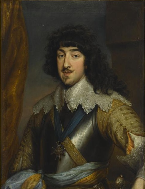 Gaston, Duke of Orléans, painting by van Dyck